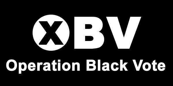 Operation Black Vote Logo